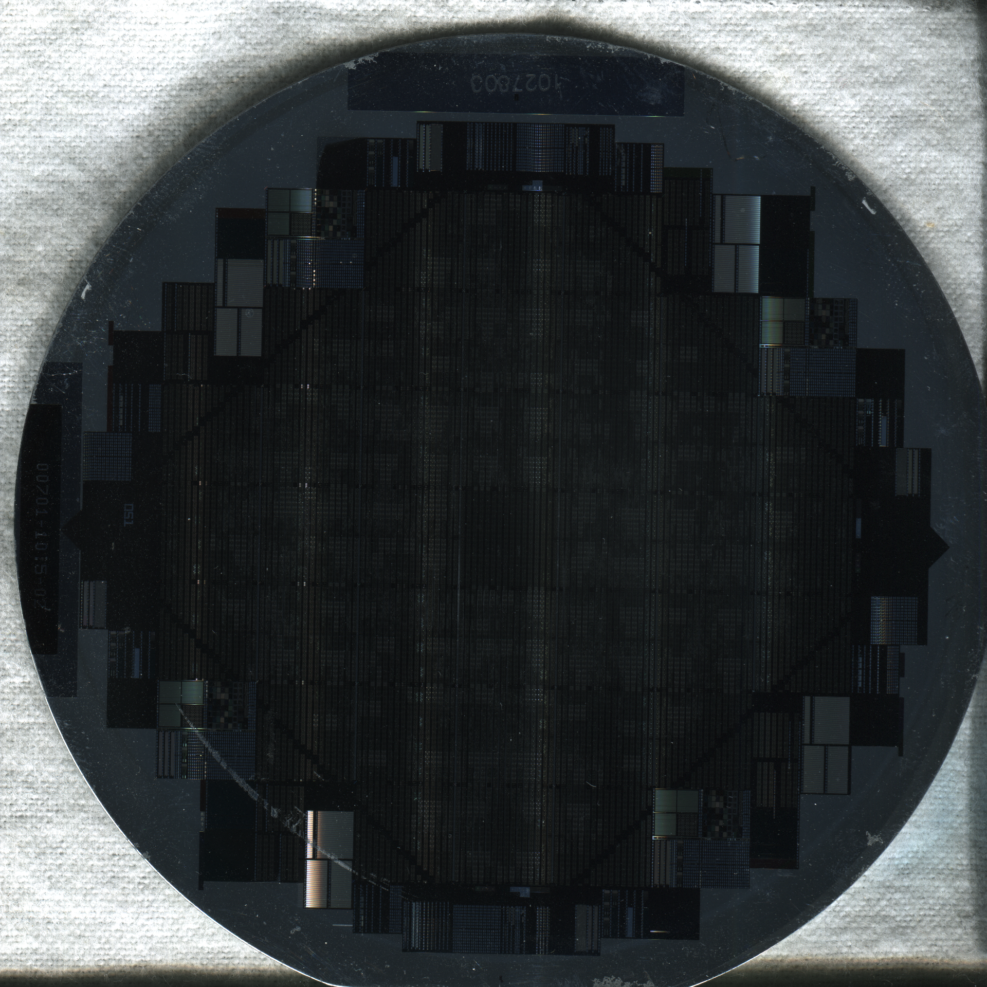 This is a WSI (Wafer Scale Integration) chip manufactured by Trilogy Systems (probably between 1982-1984. Specific date of manufacture unknown). Image was taken by laying the chip wafer on a scanner. This is my clearest image of the chip, to date. This prototype WSI chip never succeeded in functioning.